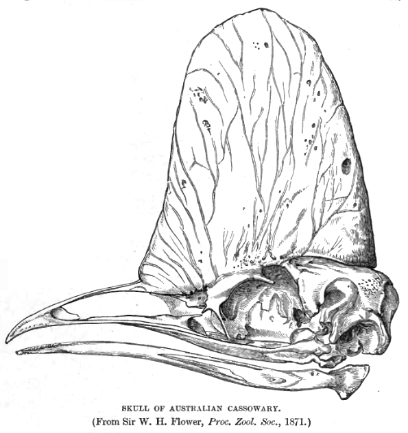 Skull of Australian Cassowary Casuarius casuarius